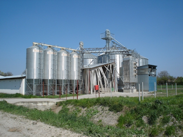 Farming Village Cooperative of Jagodnjak